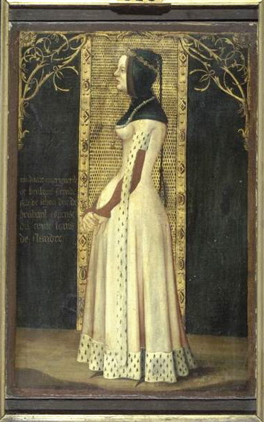 Margaret of Brabant, Countess of Flanders